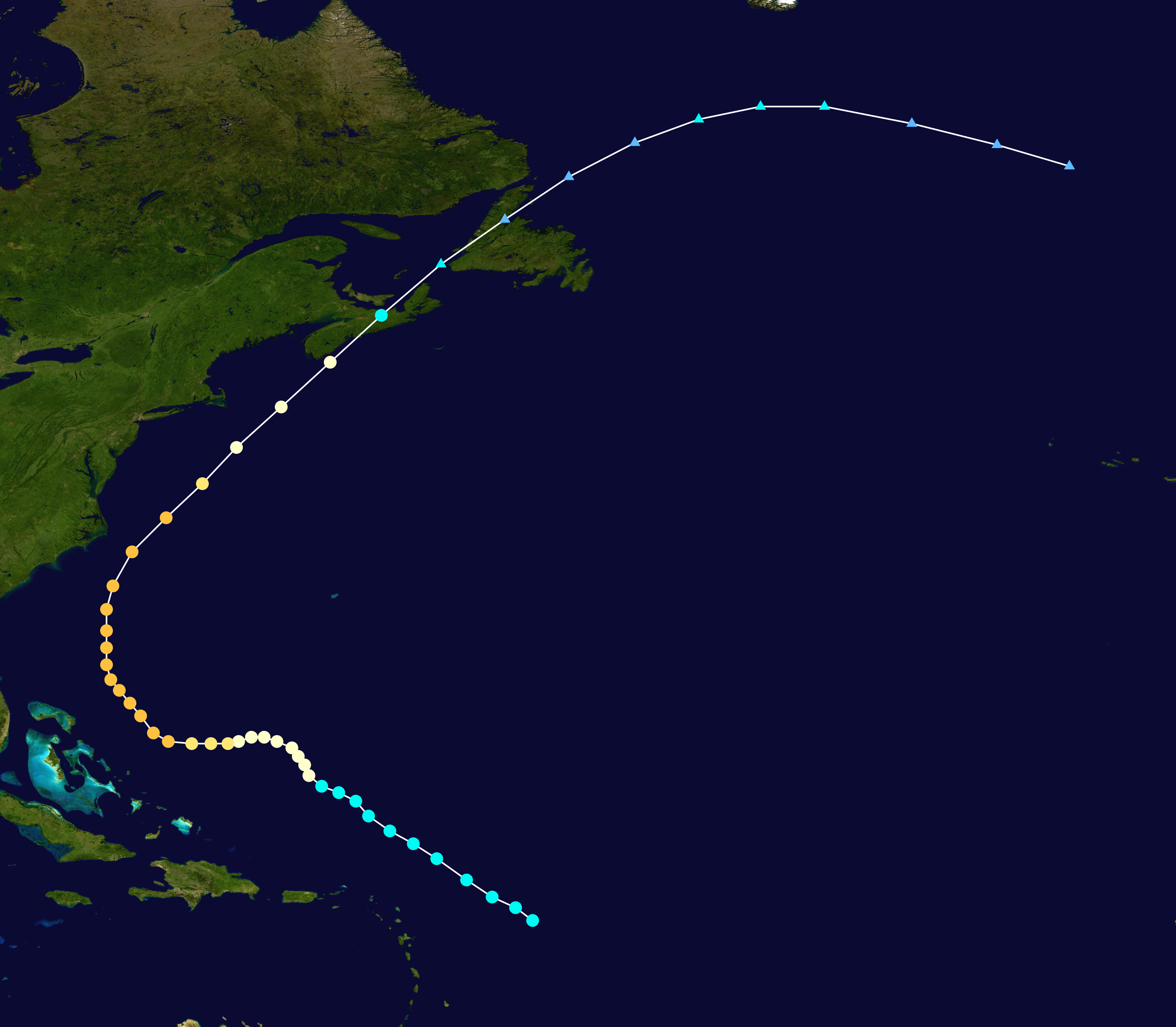 Track map of Hurricane Able of the 1950 Atlantic hurricane season. The points show the location of the storm at 6-hour intervals. The colour represents the storm's maximum sustained wind speeds as classified in the Saffir–Simpson scale (see below), and the shape of the data points represent the nature of the storm, according to the legend below. Saffir–Simpson scale Tropical depression≤38 mph≤62 km/h Category 3111–129 mph178–208 km/h Tropical storm39–73 mph63–118 km/h Category 4130–156 mph209–251 km/h Category 174–95 mph119–153 km/h Category 5≥157 mph≥252 km/h Category 296–110 mph154–177 km/h Unknown Storm type Tropical cyclone Subtropical cyclone Extratropical cyclone / Remnant low / Tropical disturbance